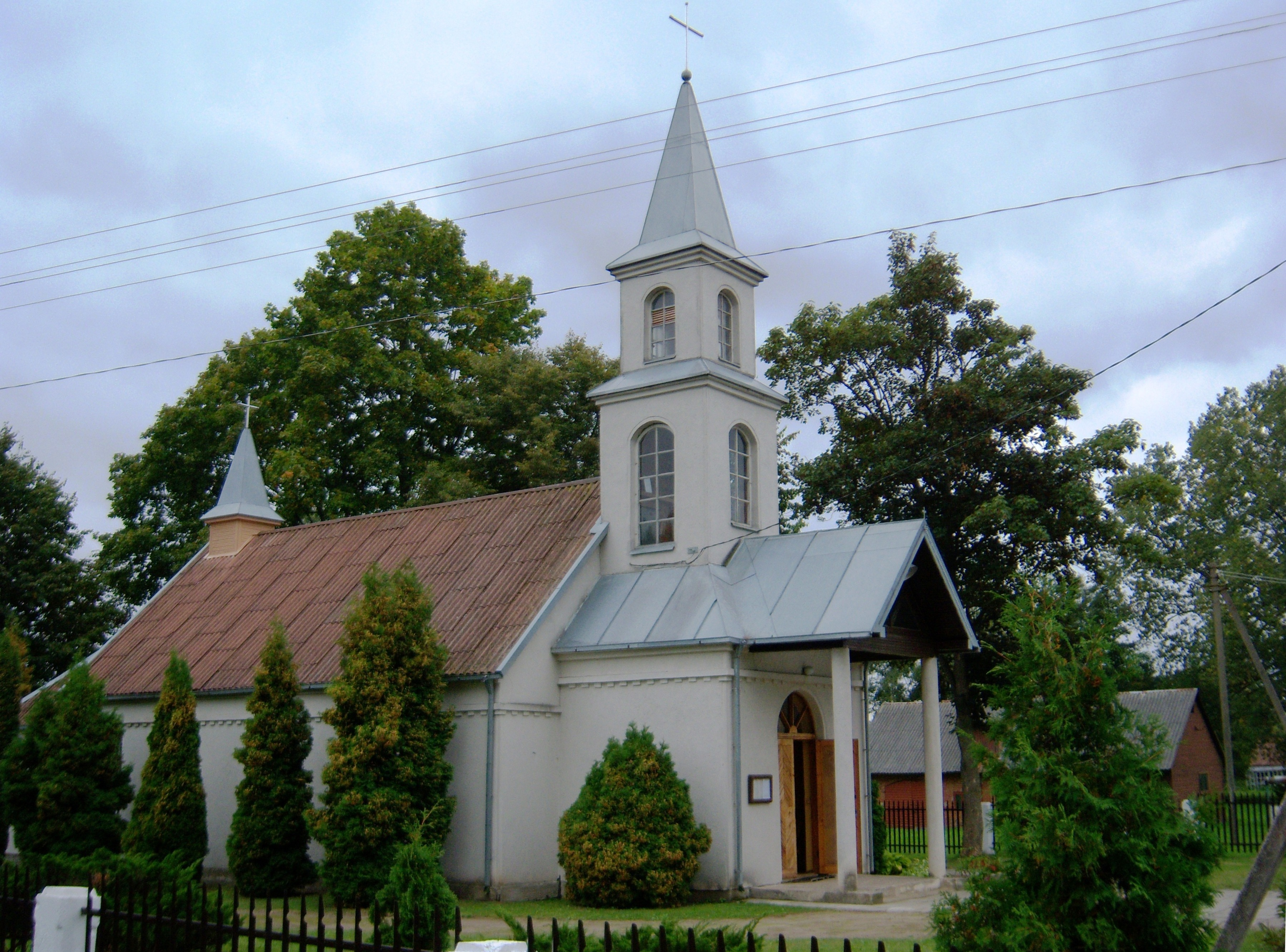 Roman Catholic Church, Žalioji, Vilkaviškis District, Lithuania